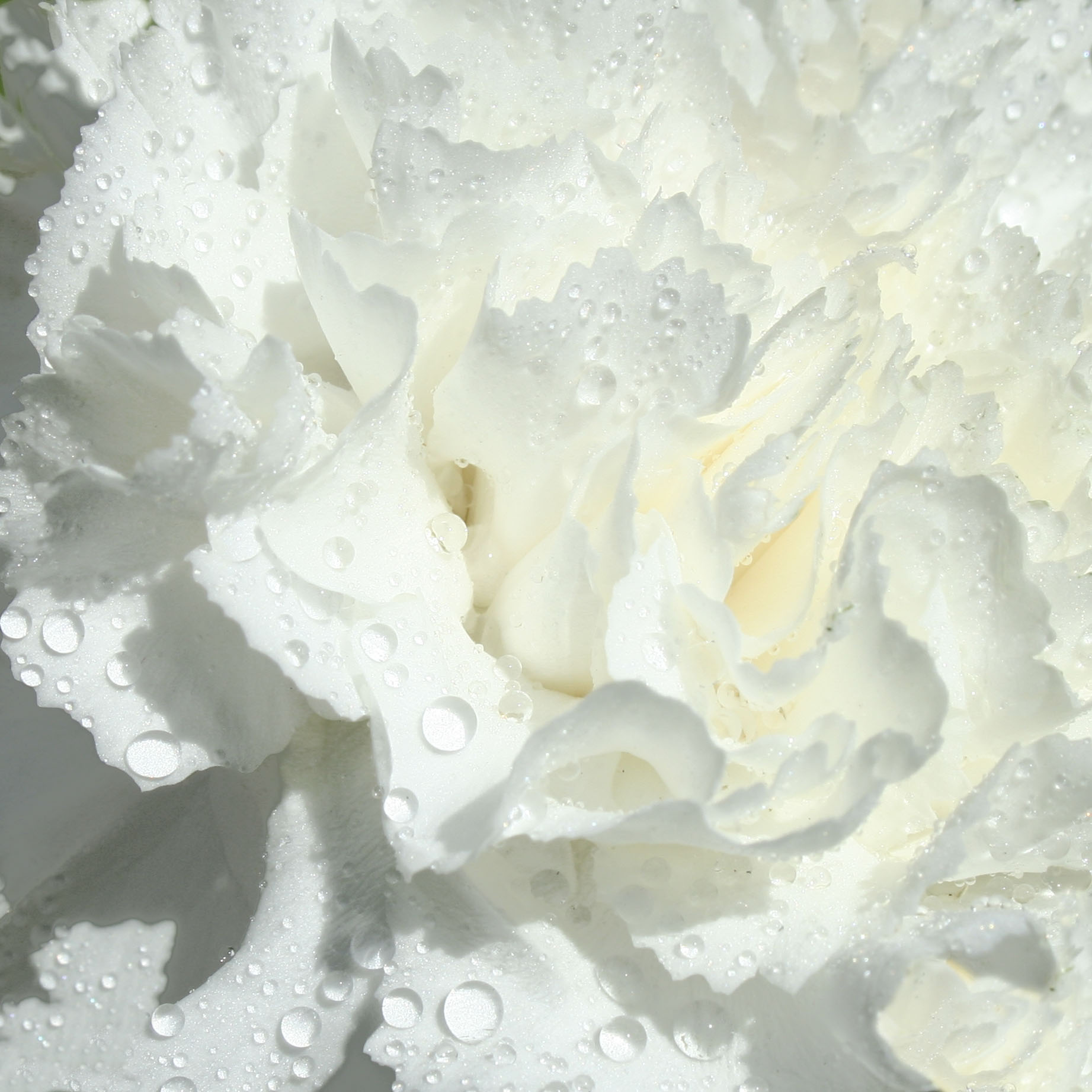 Dianthus caryophyllus (flowers white) Close Up - with rain drops - Locate: Budapest, Hungary